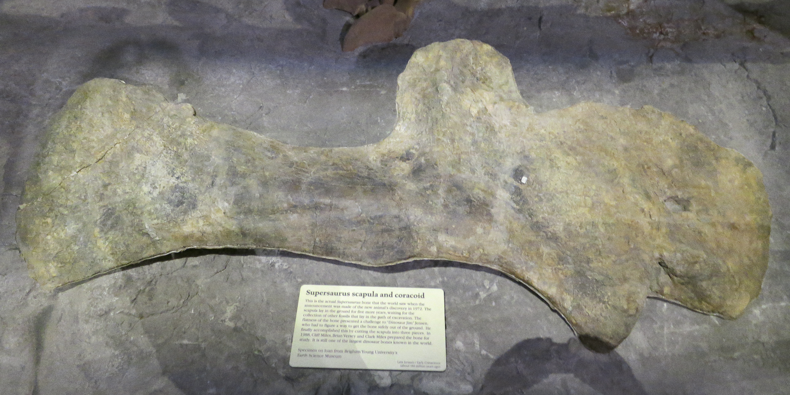 BYU 12962, a giant scapulocoracoid refered to the sauropod dinosaur Supersaurus.